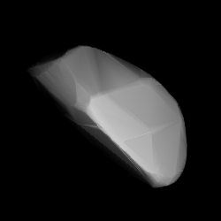 3D convex shape model of 2064 Thomsen, computed using light curve inversion techniques. J. Hanuš, J. Ďurech, M. Brož, B. D. Warner (June 2011). "A study of asteroid pole-latitude distribution based on an extended set of shape models derived by the lightcurve inversion method". Astronomy and Astrophysics 530: A134. ISSN 0004-6361. arXiv